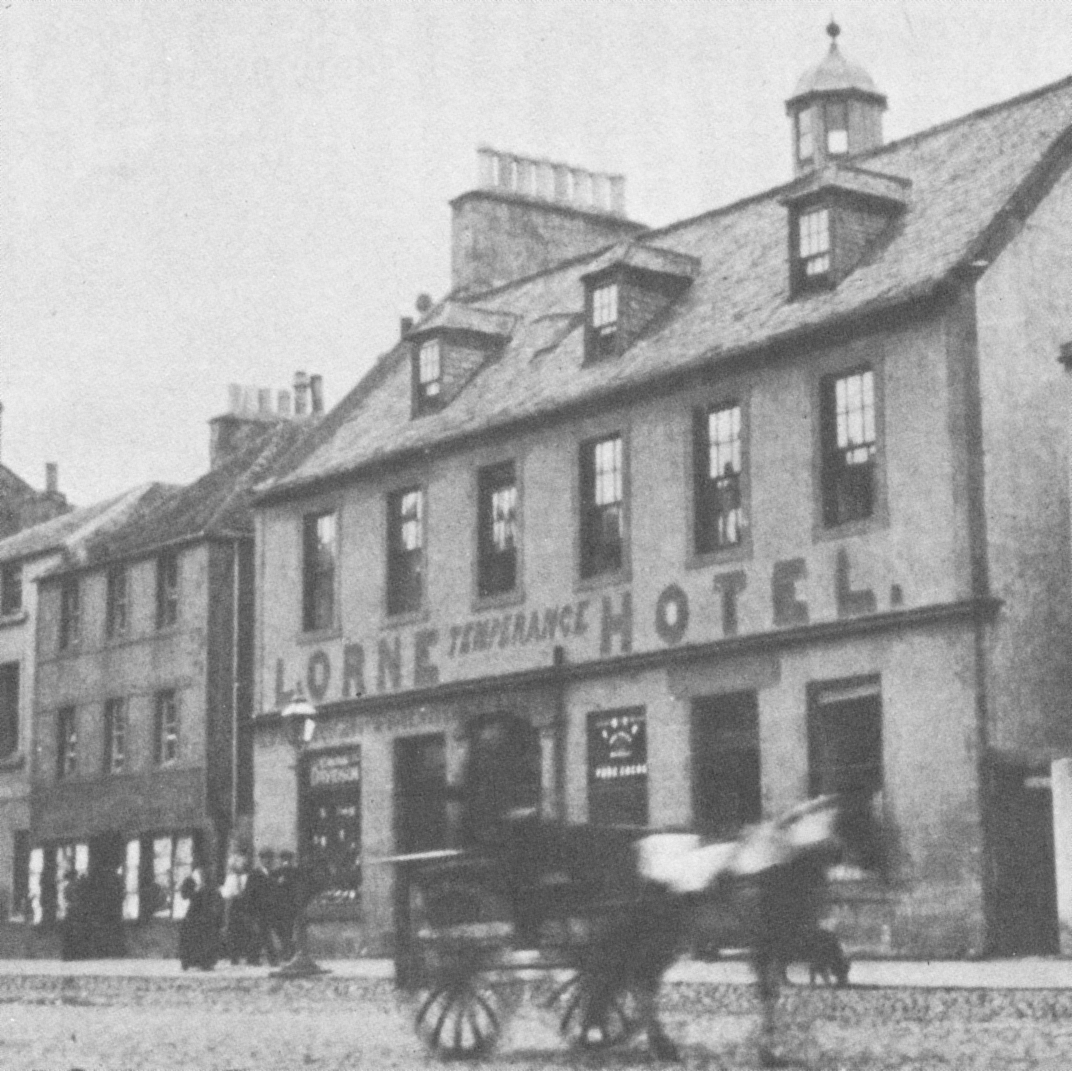 A photo of the birthplace (left) and childhood home (right) of John Muir in Dunbar, Scotland.